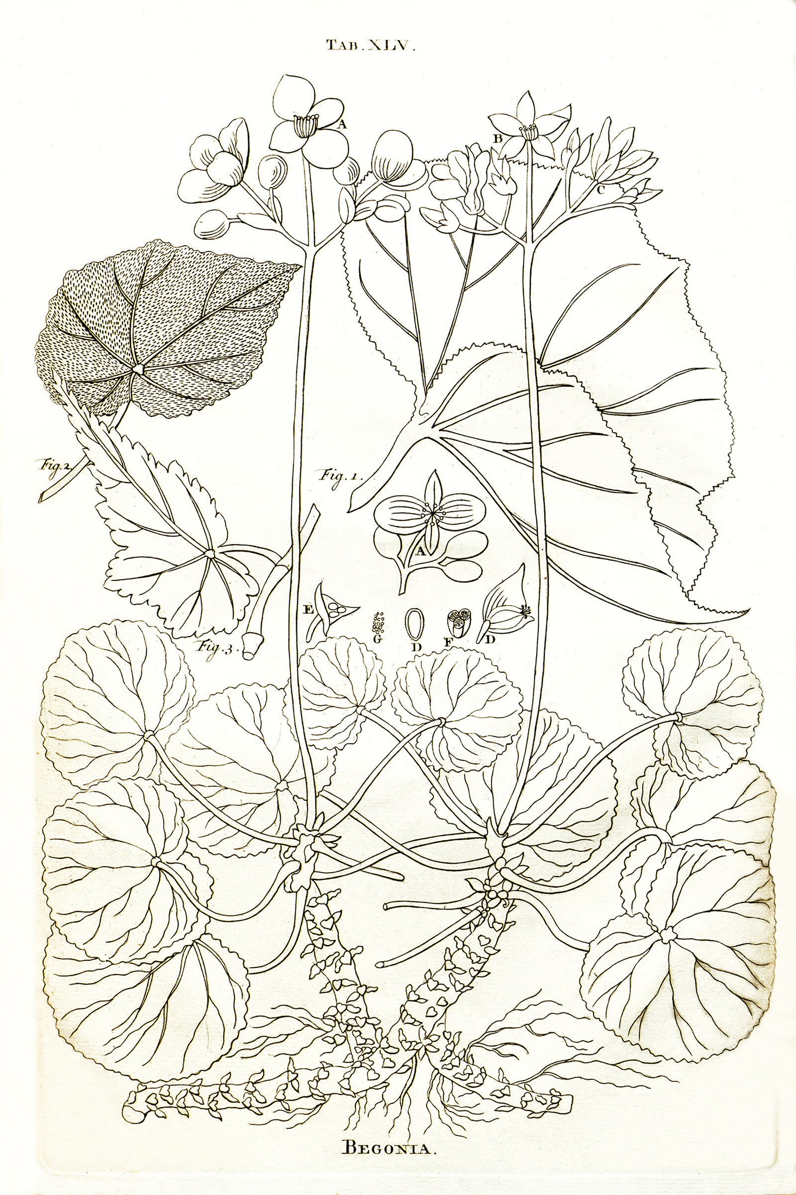 Gravure taille-douce, pl 45 du Plantarum americanarum